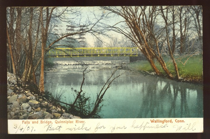 Postcard: Bridge over the :en:Quinnipiac River|Quinnipiac River in :en:Wallingford, Connecticut|Wallingford, Connecticut , 1907 postmark. From store Web page: "1907 POSTCARD FALLS AND BRIDGE, QUINNIPLAC RIVER, WALLINGFORD, CONN.; POSTALLY USED and CANCELLED MARCH, 1907 and addressed to MISS ALICE M. THOMAS, GAYLORD FARM, WALLINGFORD, CONN." Message on front of card: "3/4/07 Best wishes for your happiness. Will" Caption on front of card: "Falls and Bridge, Quinnipiac River. Wallingford, Conn."